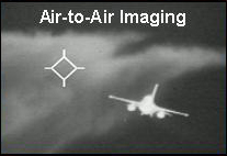 Air-to-Air image from EOTS (F-16 with two fuel tanks)